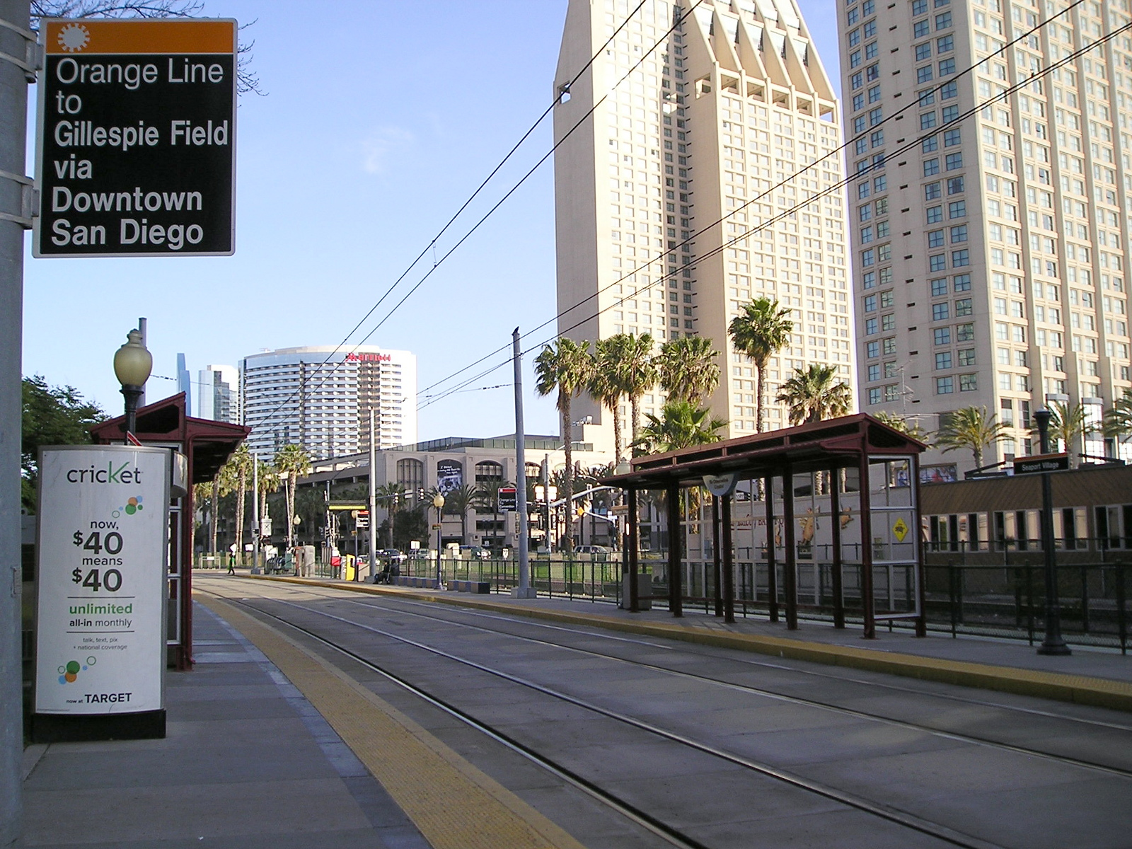 Seaport Village Trolley Station, San Diego